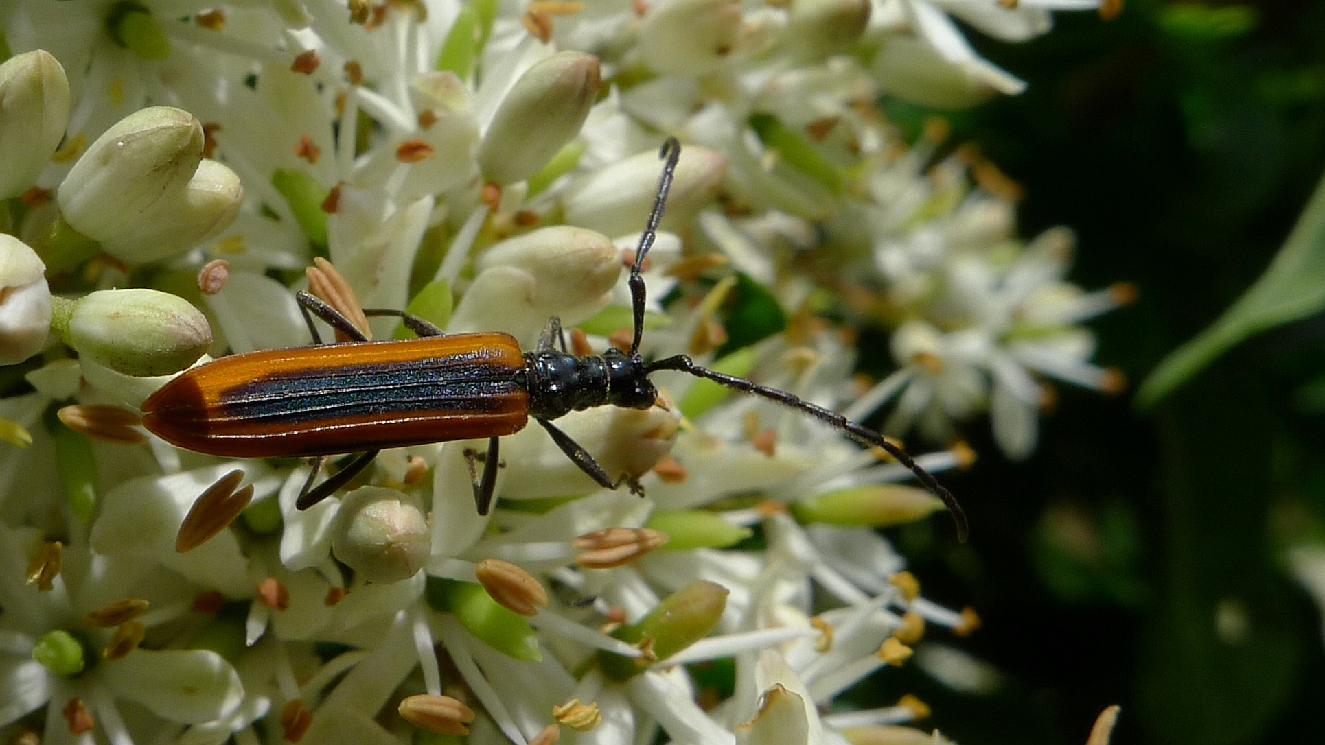 Probably Stenoderus suturalis, a Longicorn beetle dressed up to look like a Lycid beetle. On Prickly Box, Bursaria spinosa. Stanley Tasmania Australia, January 2012. A search of Flickr suggests some variation in the markings of Stenoderus.